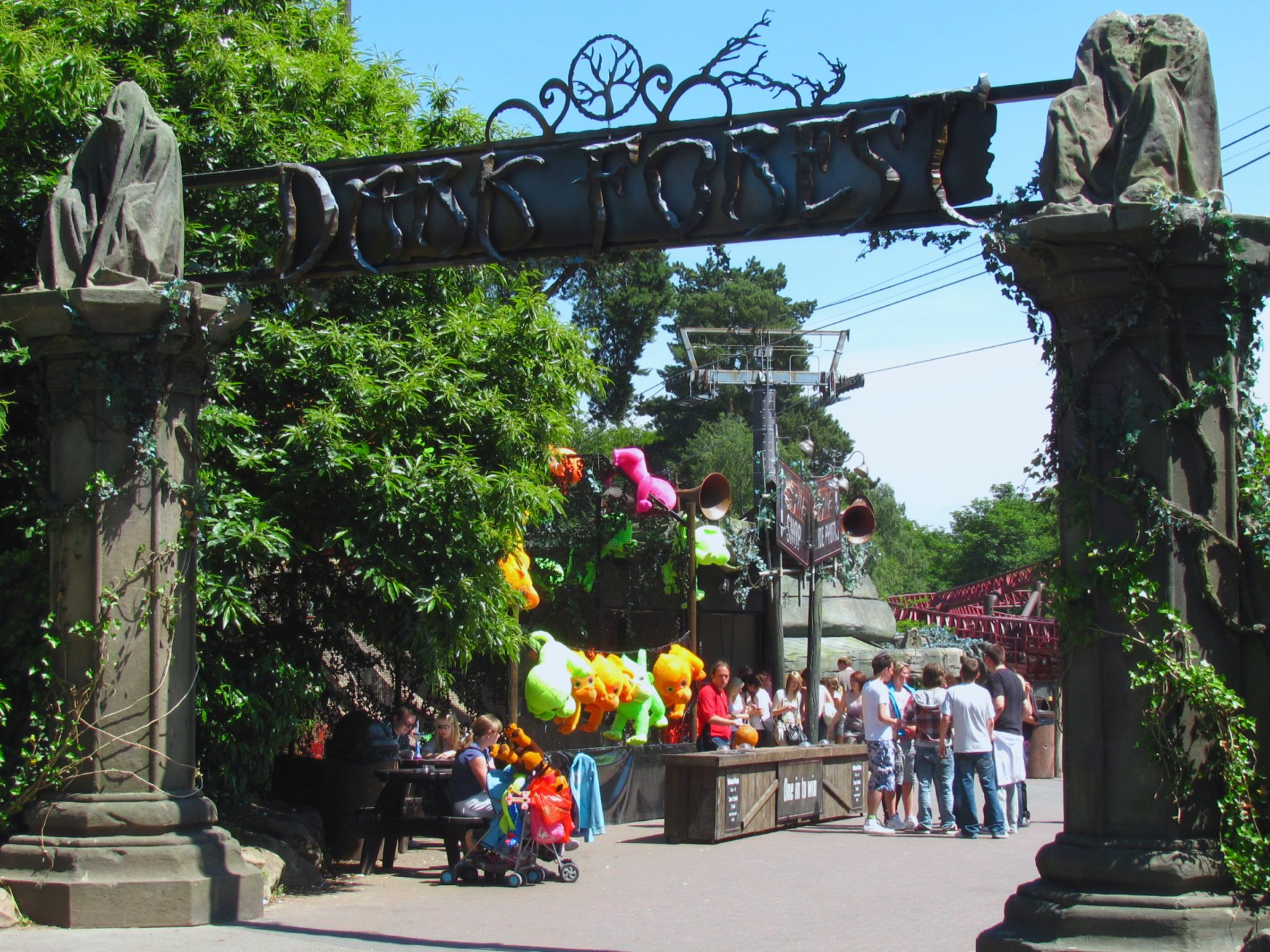 Alton Towers Dark Forest entrance